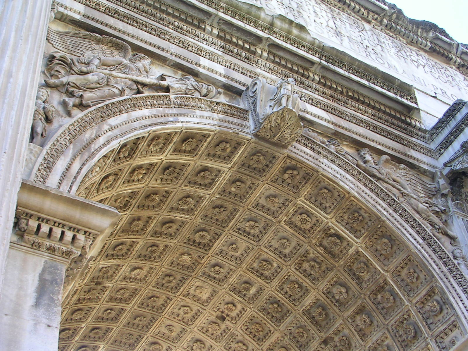 Arch of Septimus Severus from the Forum Romanum in Rome, Italy. Captured using a Nikon Coolpix E3200